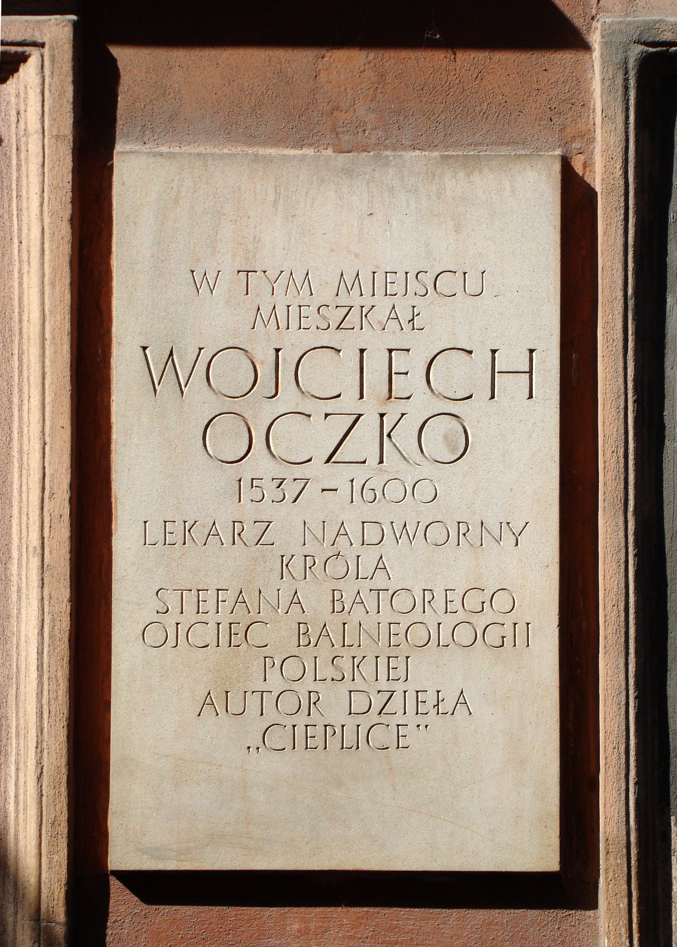 Commemorative plate, Piwna St., Warsaw